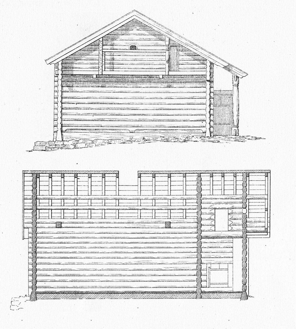 Elevation and section of the farmhouse from Rauland, Uvdal, Numedal, Norway, 1238. Now at the Norsk Folkemuseum.